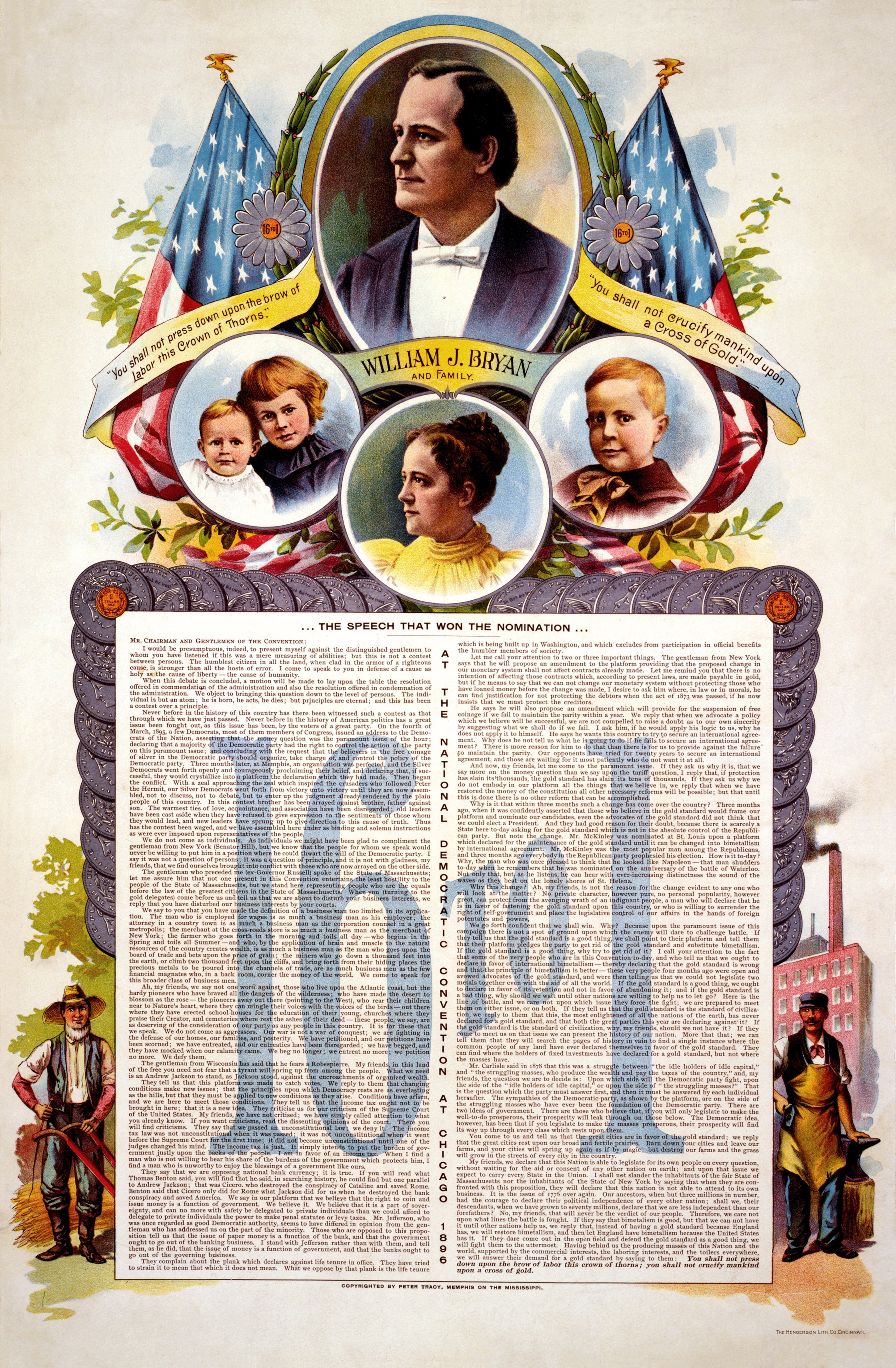 Poster for the unsuccessful first presidential campaign of Representative William Jennings Bryan of Nebraska, in 1896.